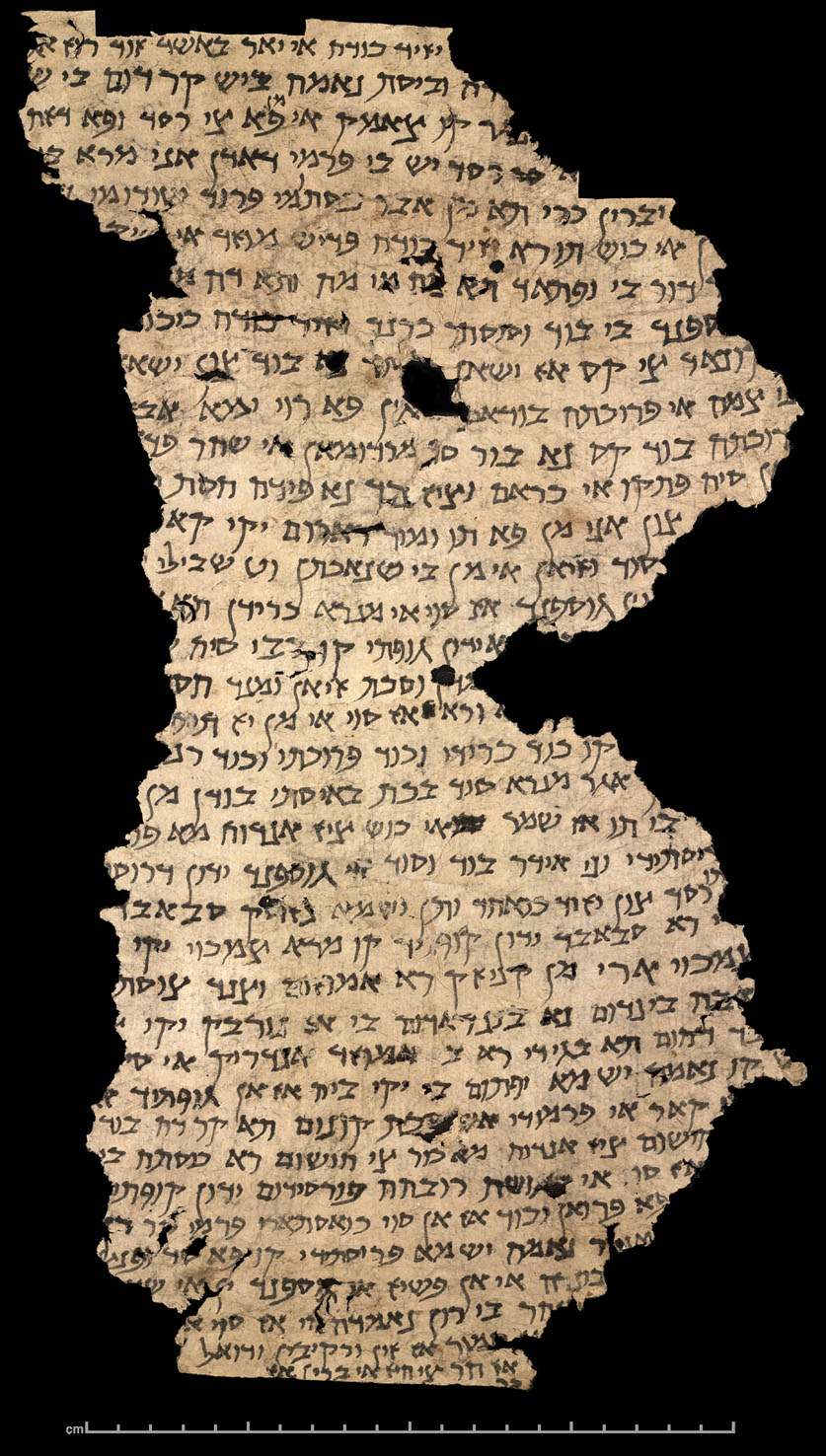 Judaeo-Persian manuscript found at Dandan-Uiliq concerning trading sheep and the sale of garments. Ink on paper.